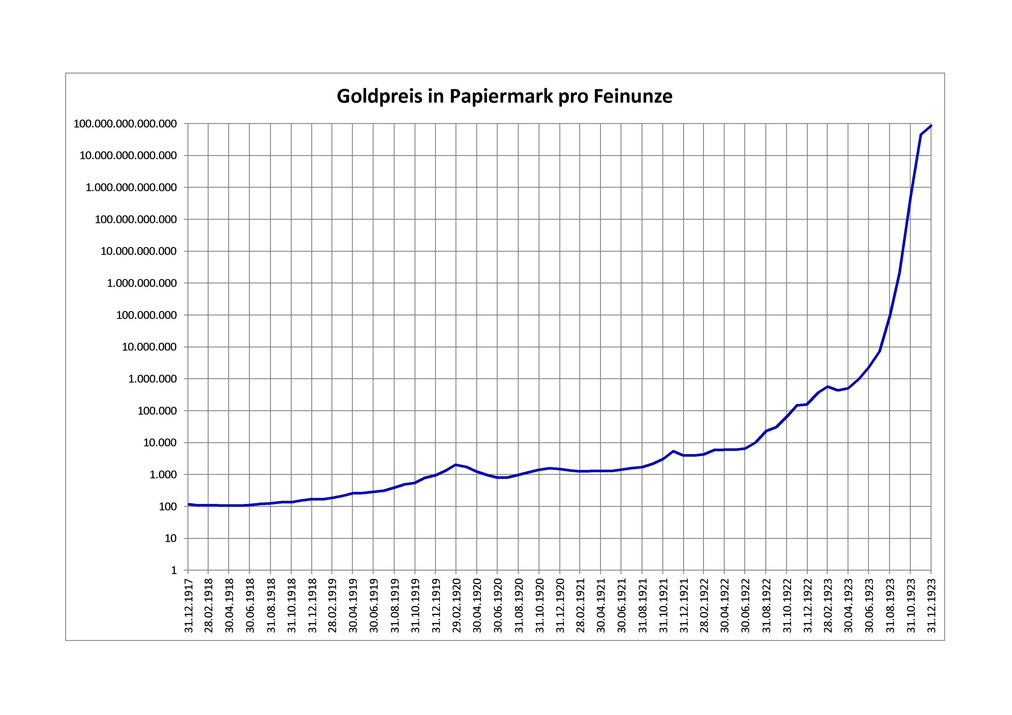 Gold price in German Papiermark (paper mark) per fine ounce from January 1918 to December 1923 (monthly average prices)